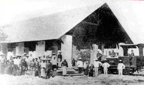 The first Saigon Railway Station at inauguration in 1881.